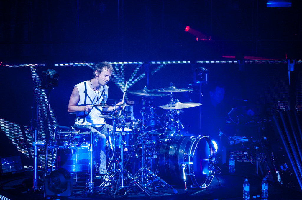 Dominic Howard of Muse at Air Canada Centre, Toronto on April 10, 2013 as part of The 2nd Law tour.